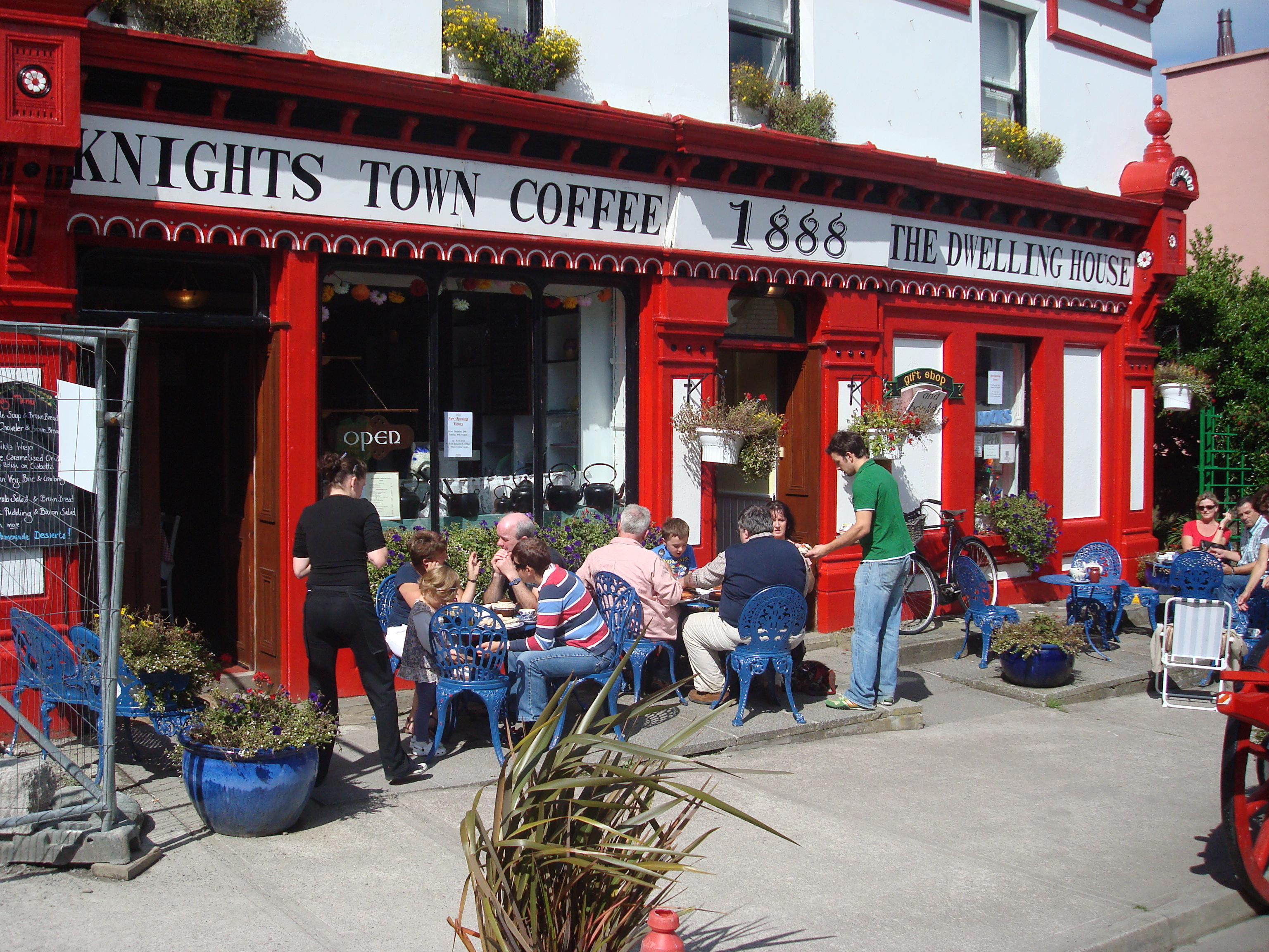 Knightstown Coffee shop, Valentia Island, Ireland. This coffee shop also has a second hand book shop where passers by can exchange their books for anything other book there. There really is a large little collection of books to choose from for a very nominal price.